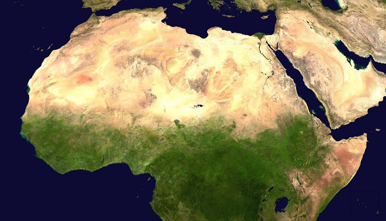 Arab World (North Africa) from space